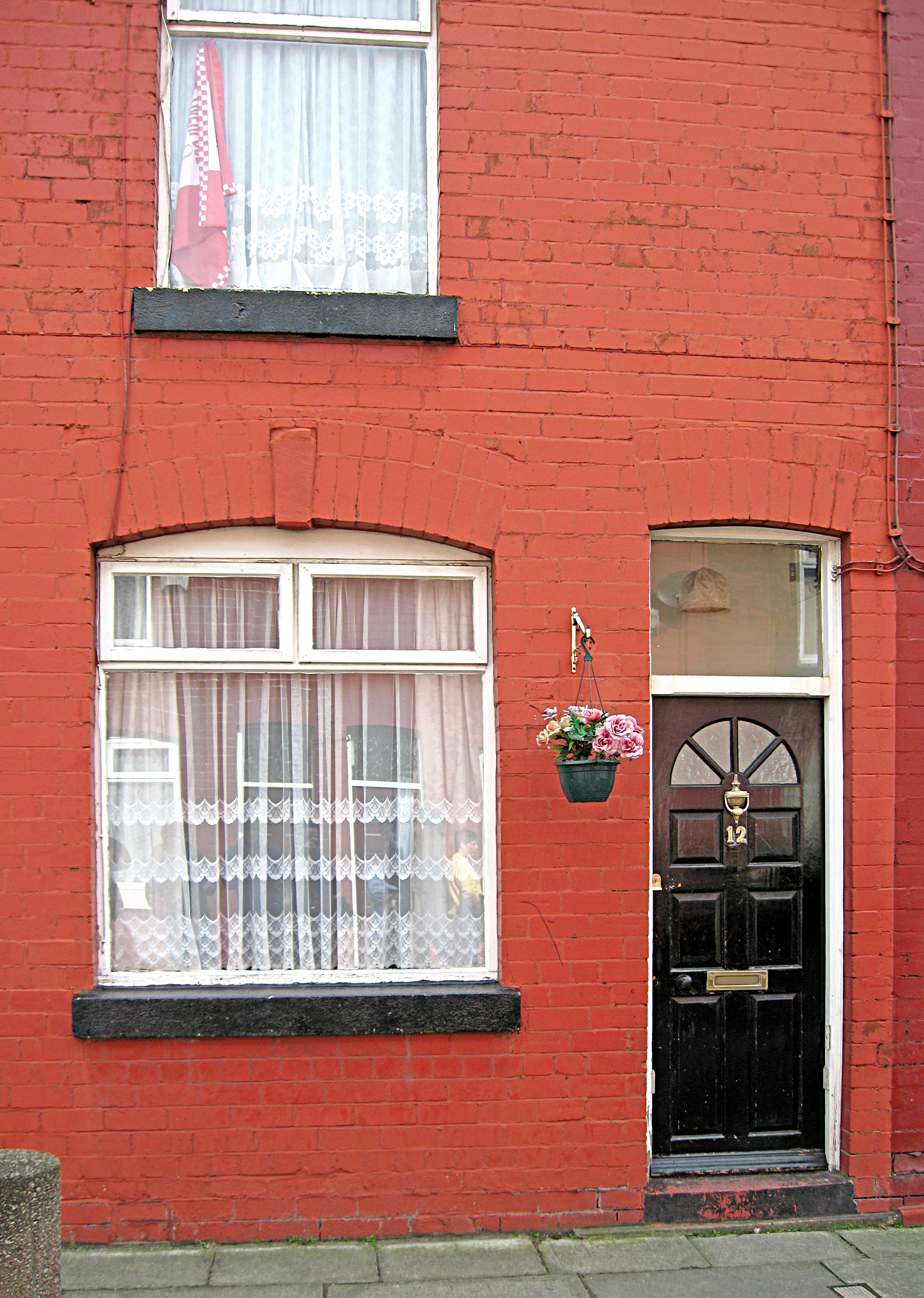 12 Arnold Grove, Liverpool. The house where George Harrison was born and lived until he was 7.